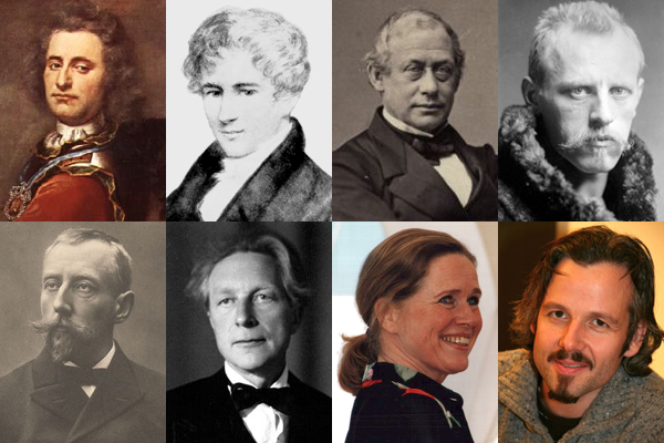 Collage of images representing the Norwegian people. Top Row (left to right): Peder Tordenskjold, Niels Henrik Abel, Frederik Stang, Fridtjof Nansen. Bottom Row (left to right): Roald Amundsen, Eivind Groven, Liv Ullmann, Ari Behn.